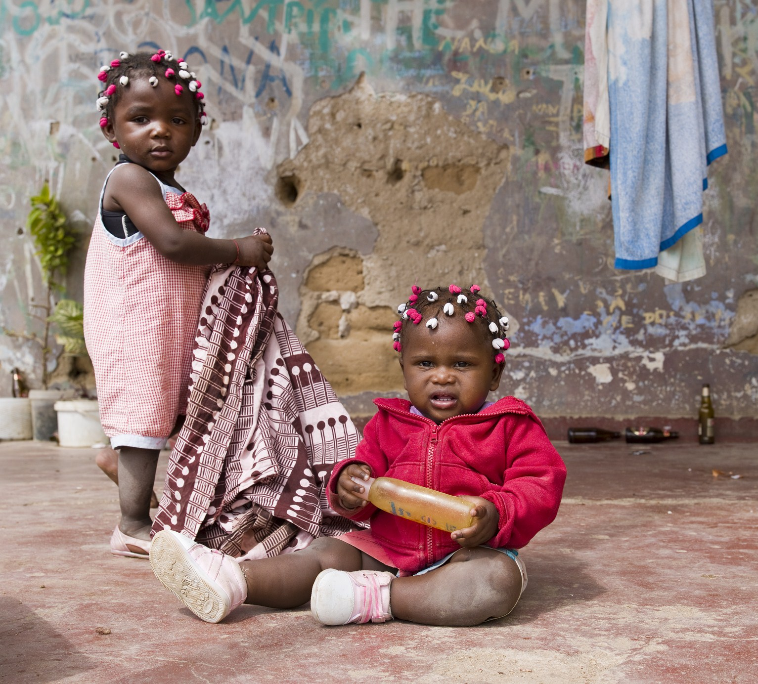 Kids in Namibe, Angola hanging clothes